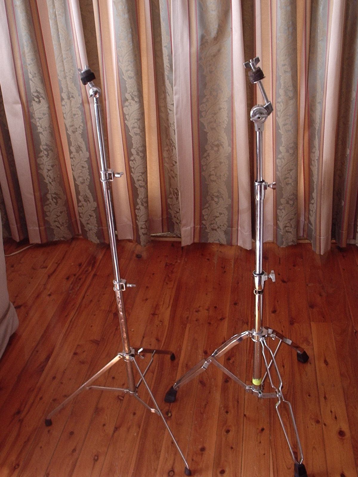 Two straight cymbals stands, a modern Pearl and an older style stand.